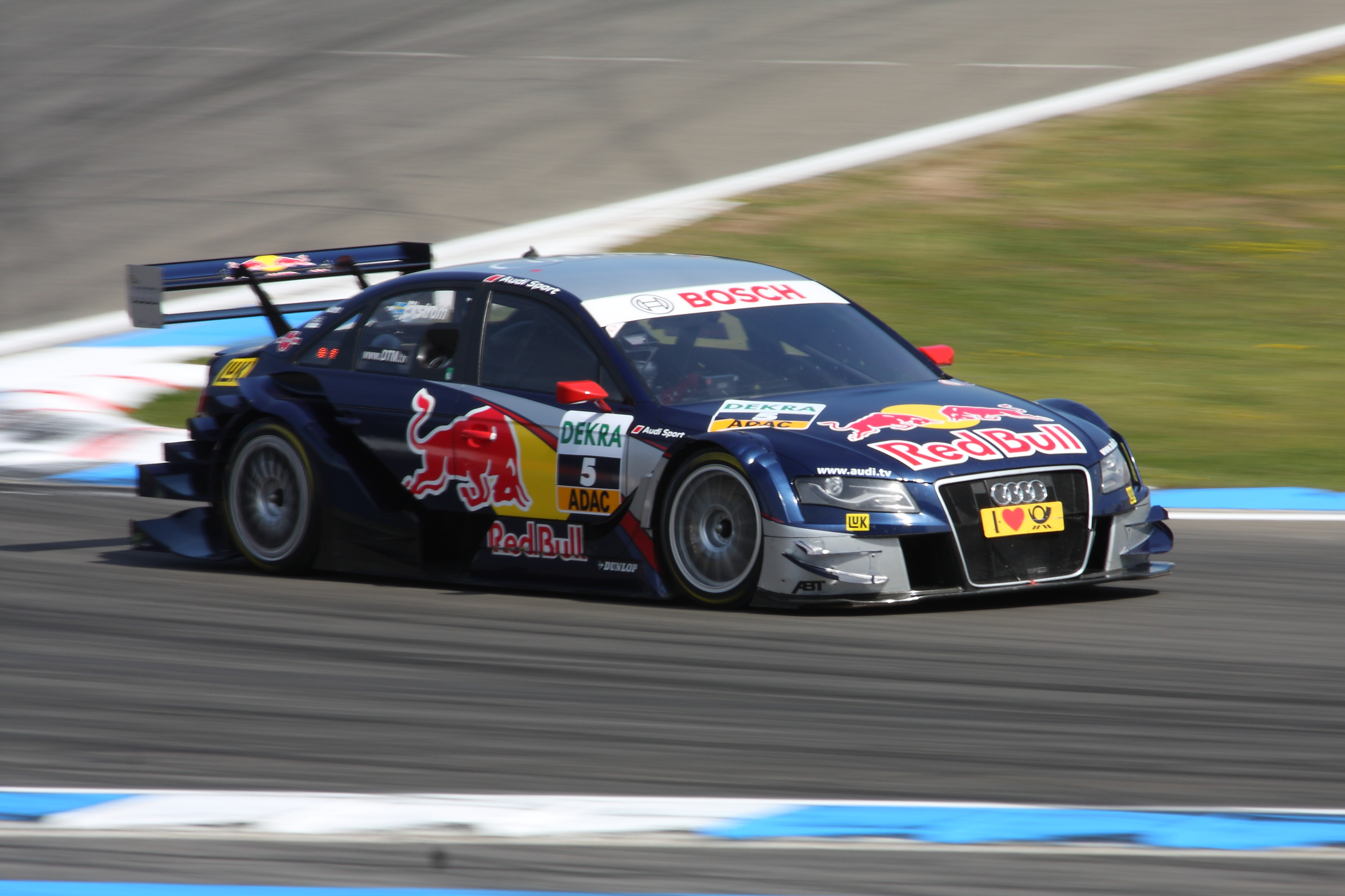 DTM Audi A4, Mattias Ekström (driver)